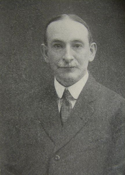 Image from Bird-Lore magazine from 1916